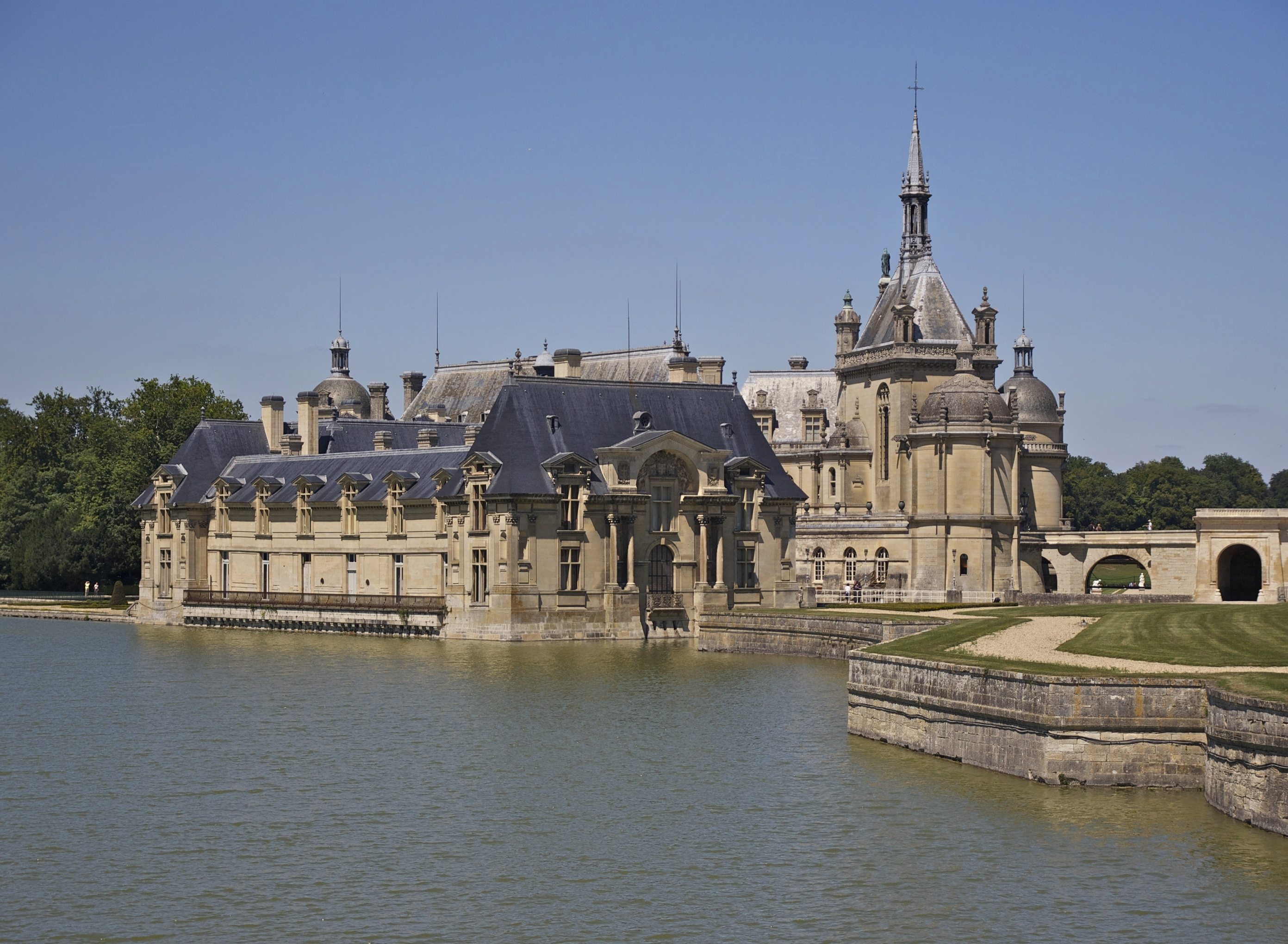 Château de Chantilly, France, from south.